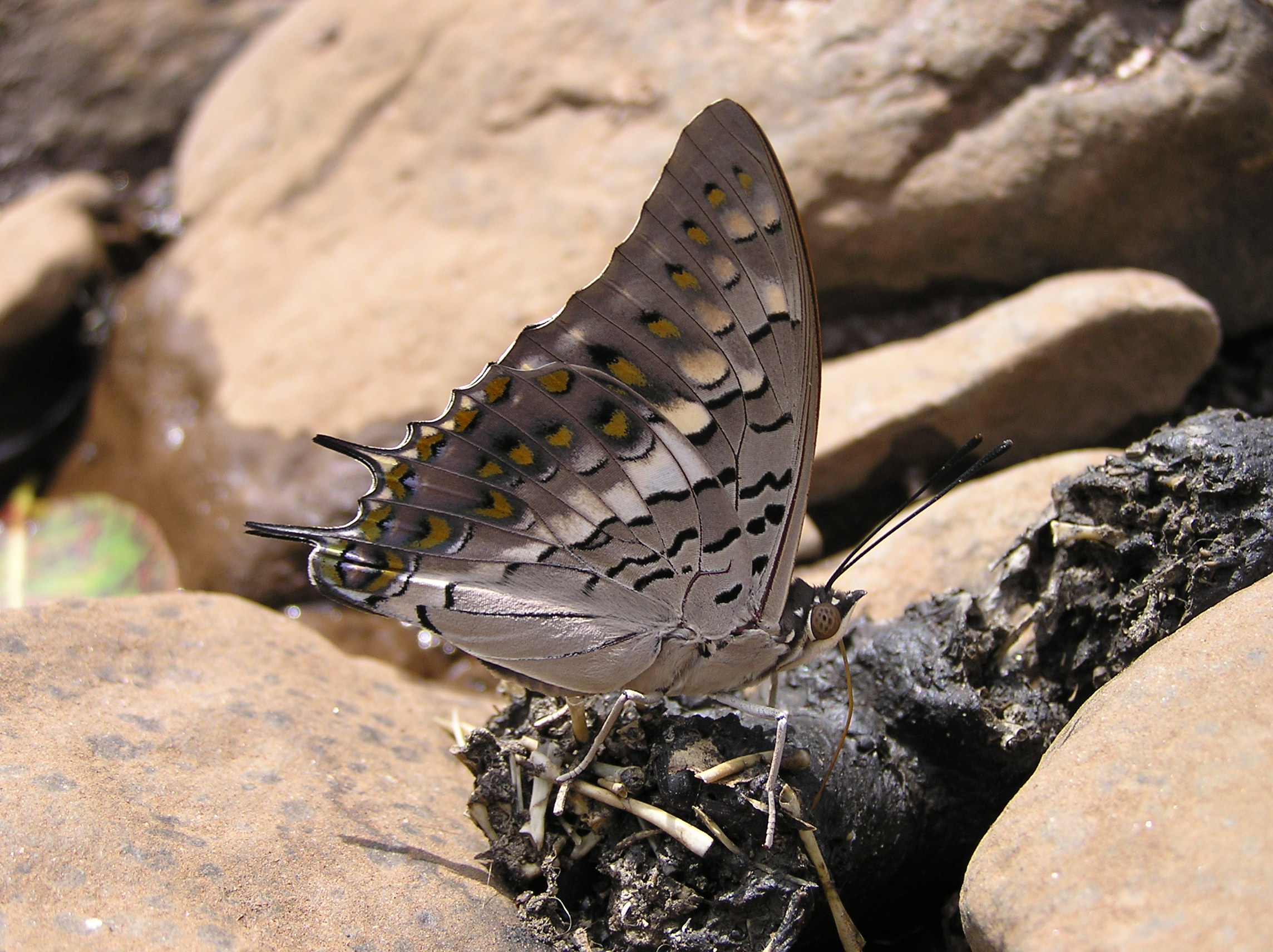 Black rajah butterfly on scat in Melghat Tiger Reserve